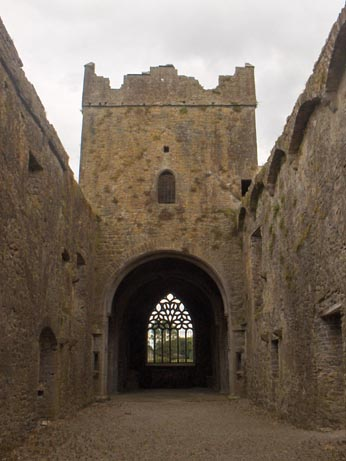 Kilcooly Abbey. Photo by William Bennett